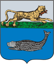 Ust-Kamchatsk (Nizhnekamchatsk, Kamchatka oblast), coat of arms (1790)